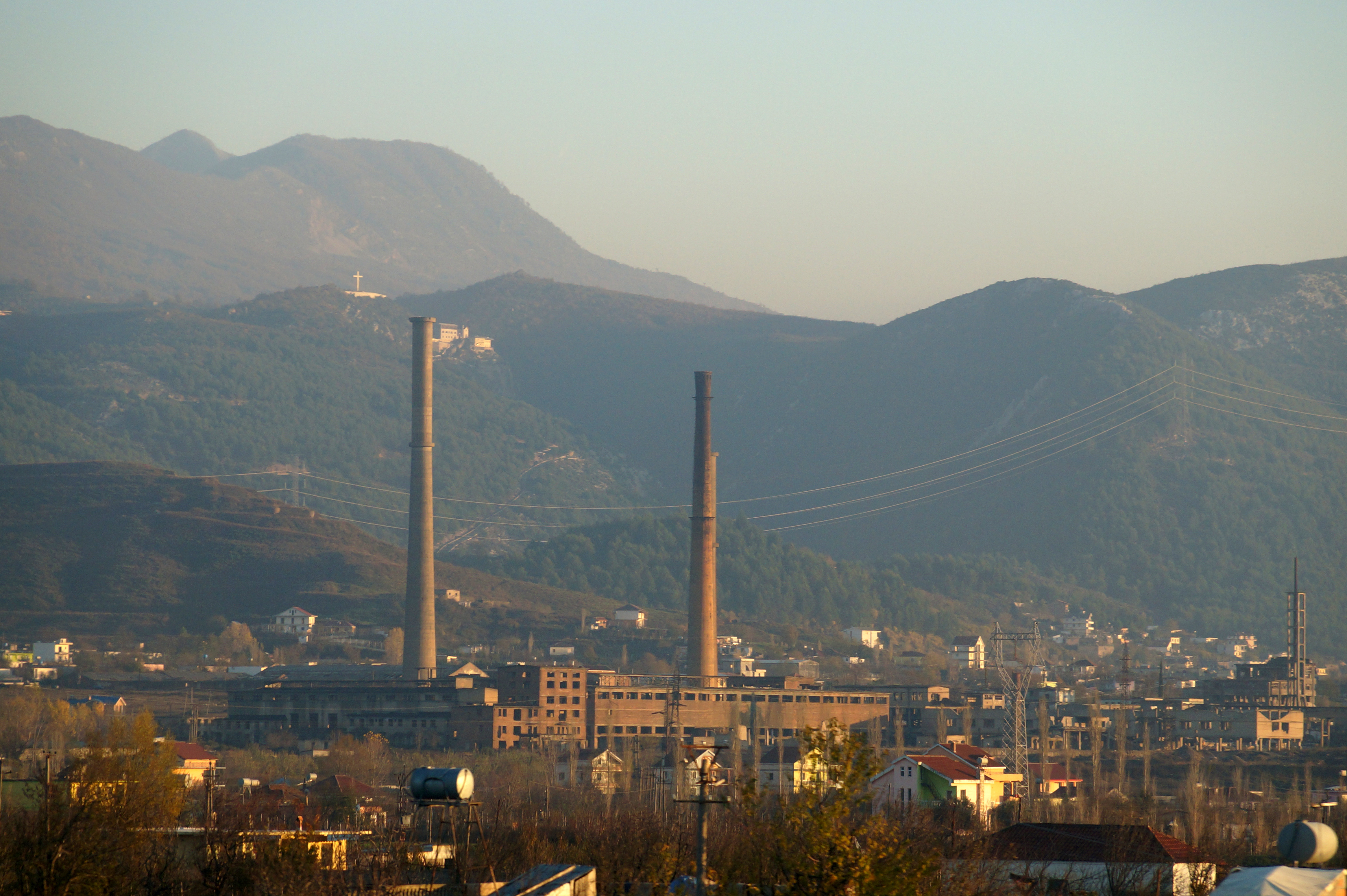 Laç, old factory